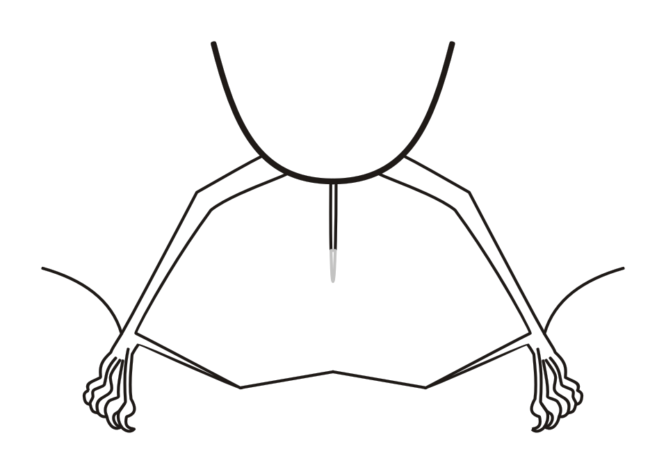 According to Husson, 1962 shows interfemoral membranes, calcar, feet and tail in bats of genus Phyllostomus